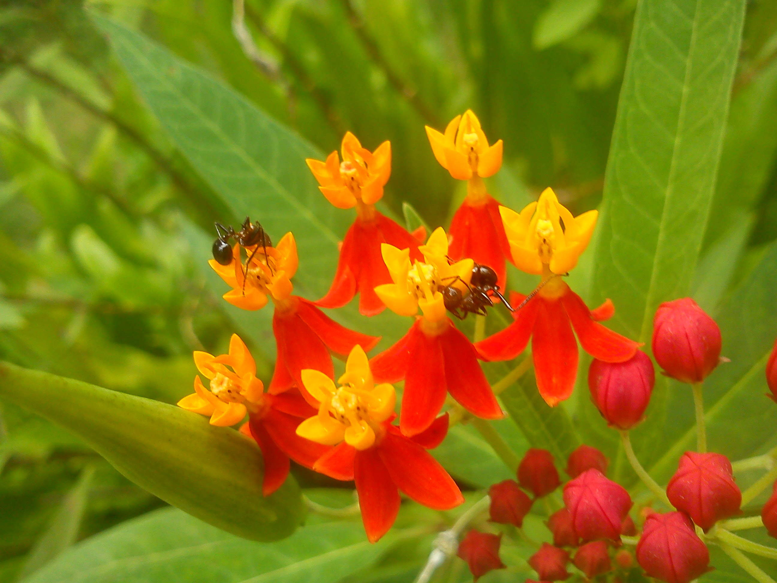 Flower1@TGPH&S,Thumkoor